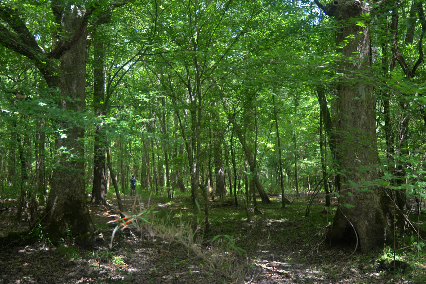 Floodplain habitat in the Big Thicket National Preserve, Big Sandy Creek Unit, Polk Co. Texas, USA; Photographed on 12 May 2020 by William L. Farr